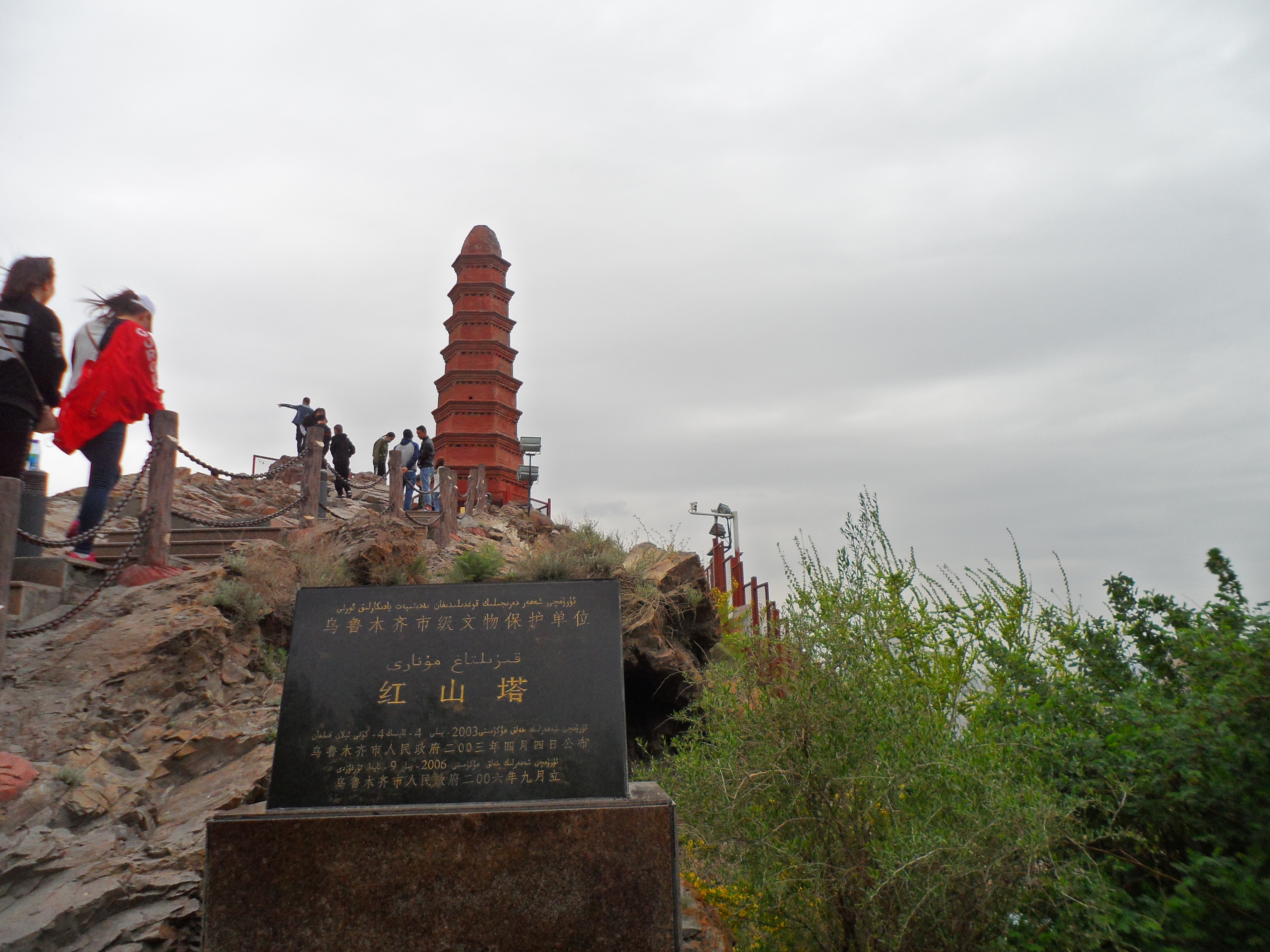 Hong Shan Pagoda